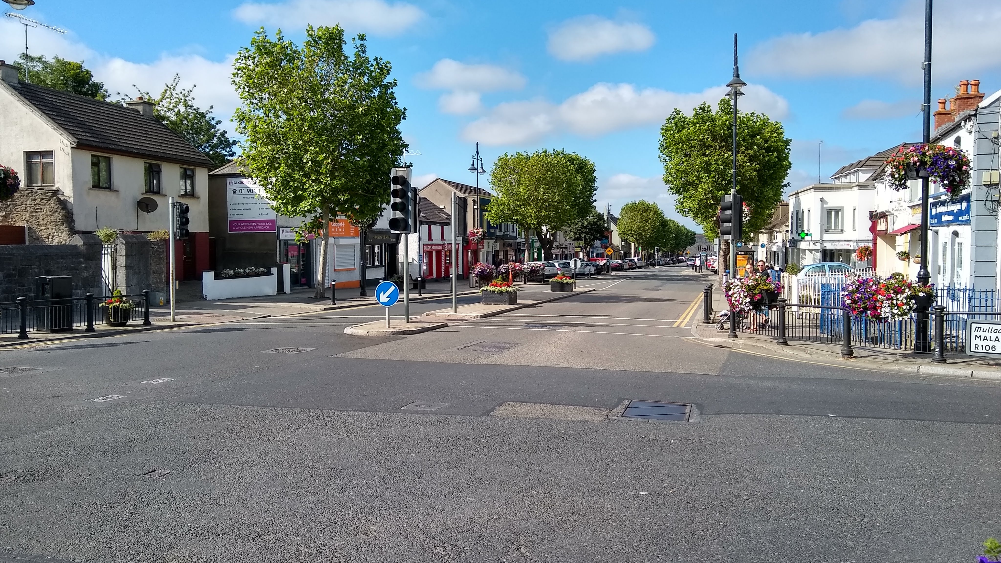 Swords Main Street at Malahide Road junction